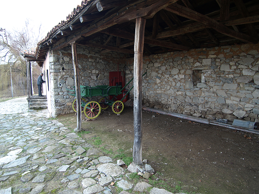 The farm building, in which Aleksandar Stamboliyski was confined and tortured